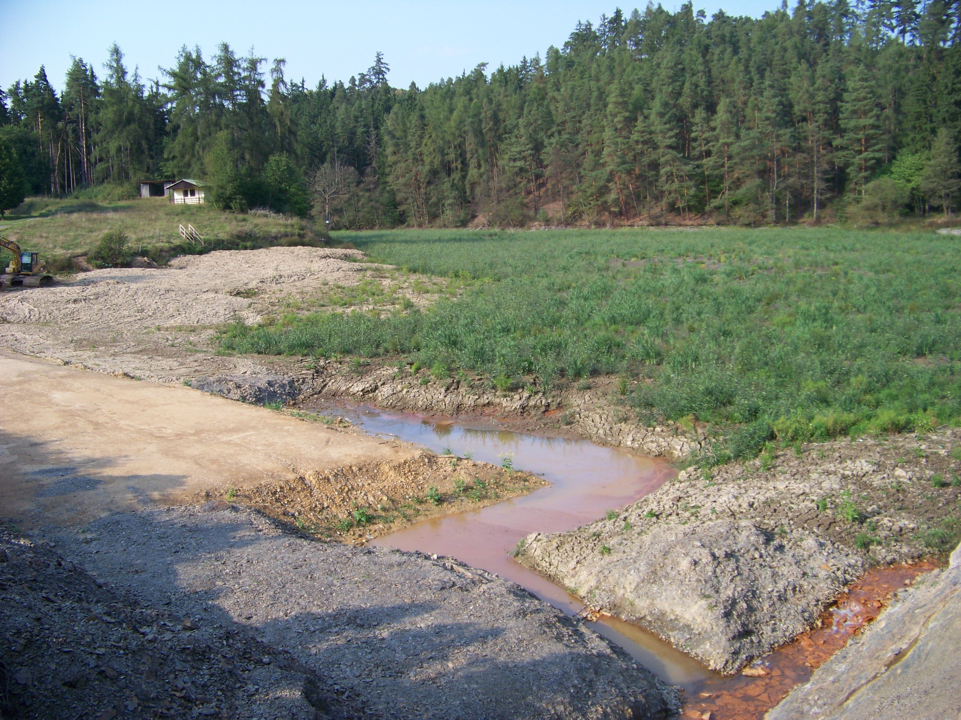 Kožlany, Plzeň-North District, Plzeň Region, the Czech Republic. Vožehák Pond.